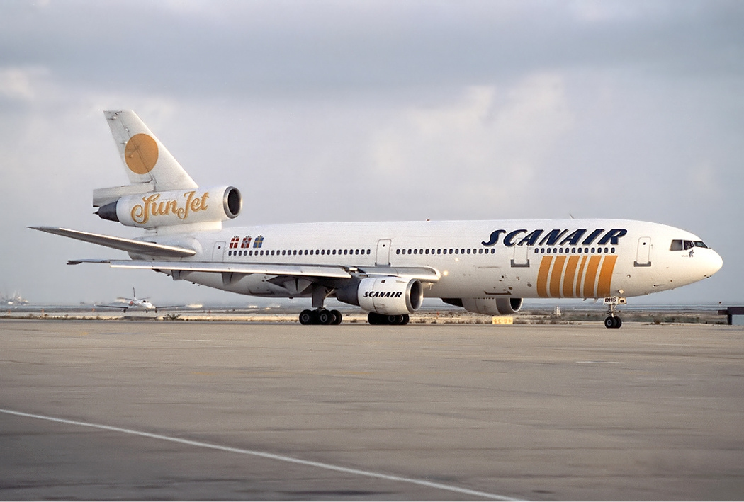 Scanair McDonnell Douglas DC-10-10